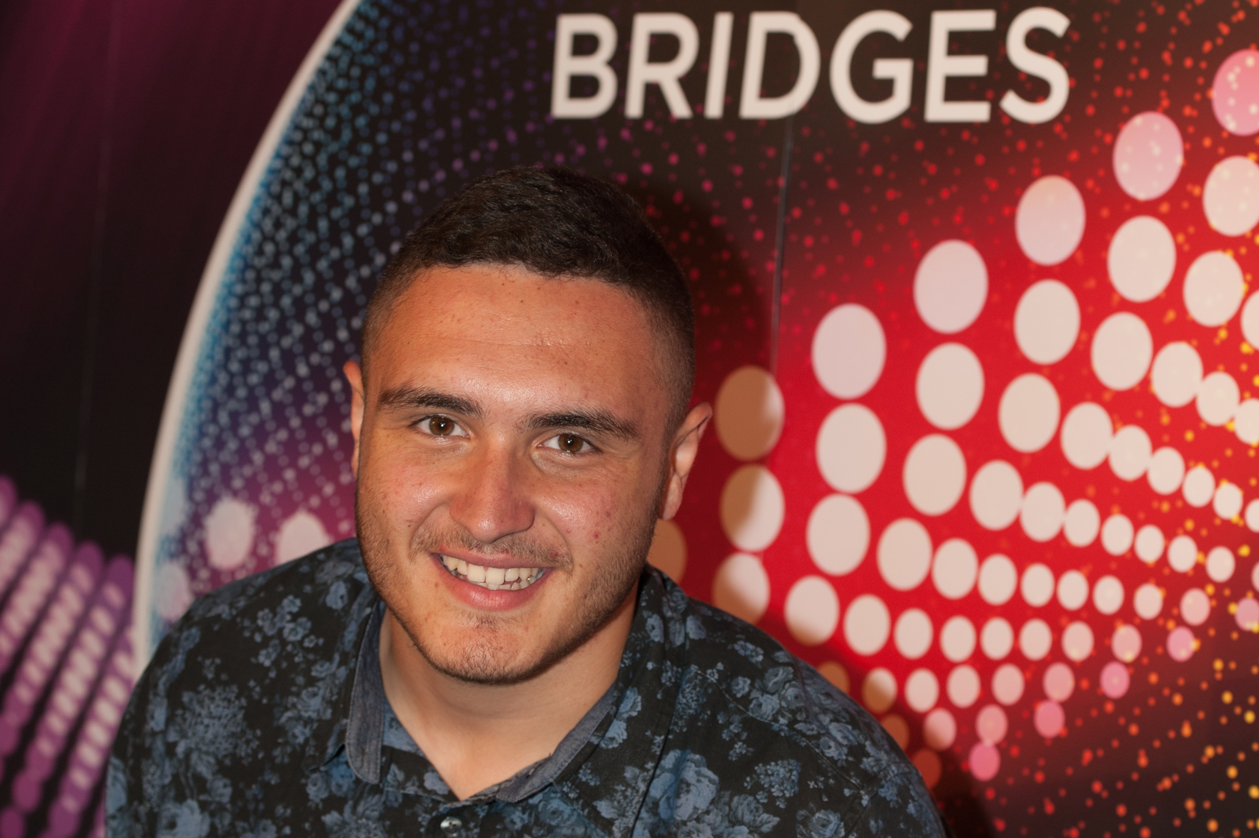 Eurovision Song Contest Vienna 2015: Nadav Guedj